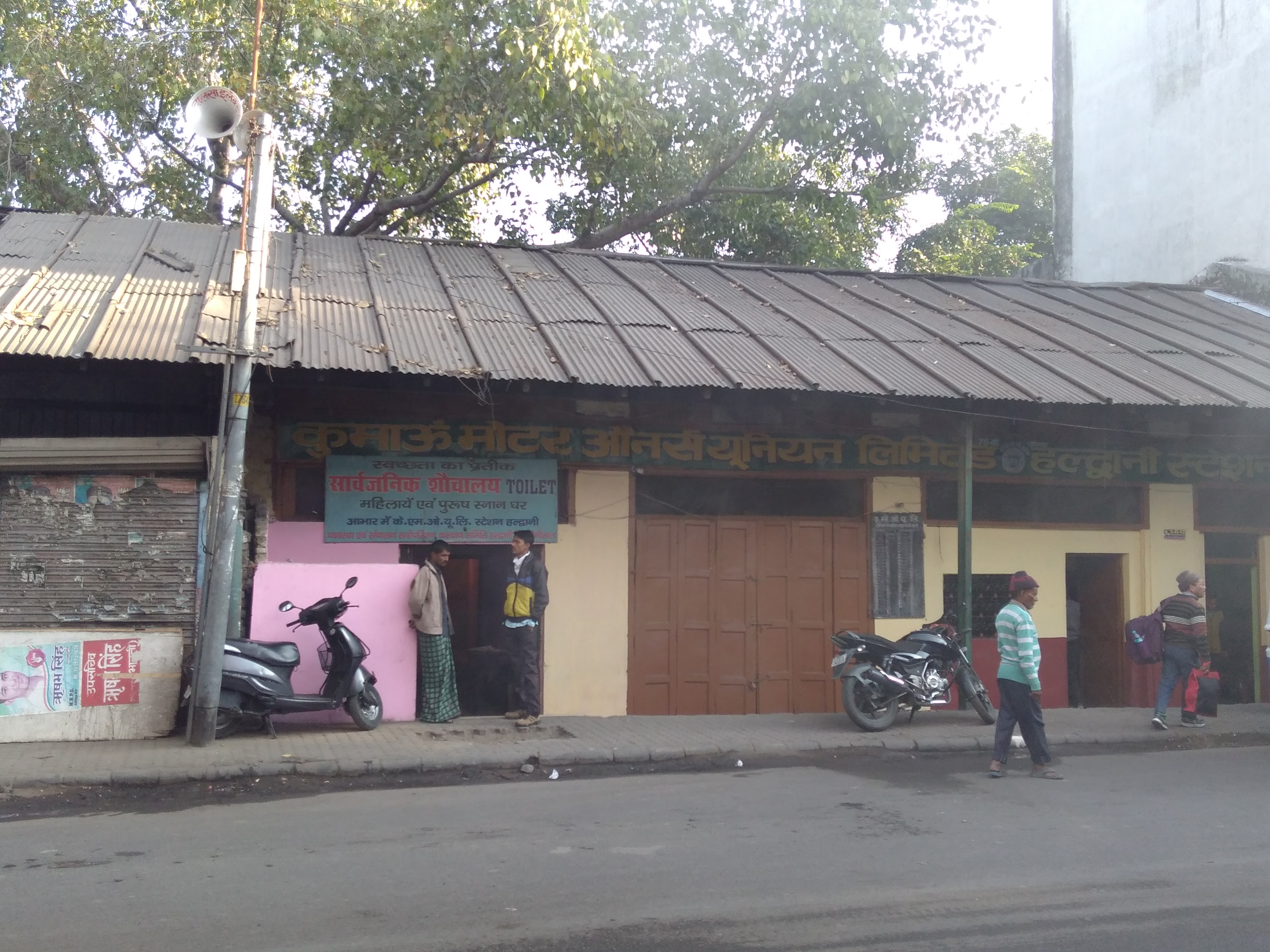 K.M.O.U. Bus Station, Hadwani